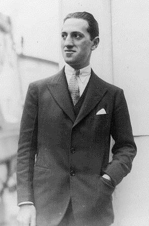 George Gershwin, half-length portrait, standing, facing left